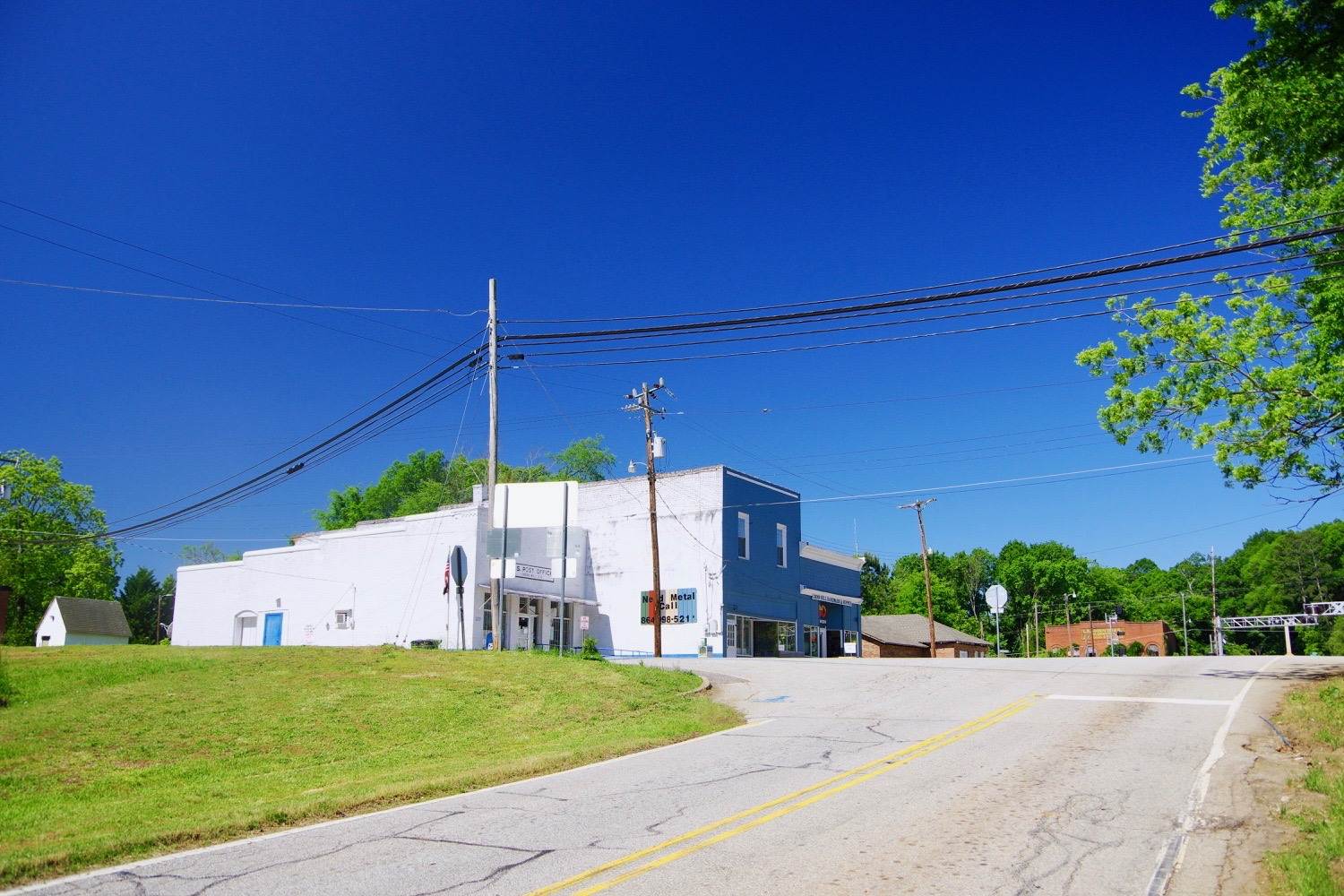 Main Street (South Carolina Highway 39) in Cross Hill, South Carolina, United States.